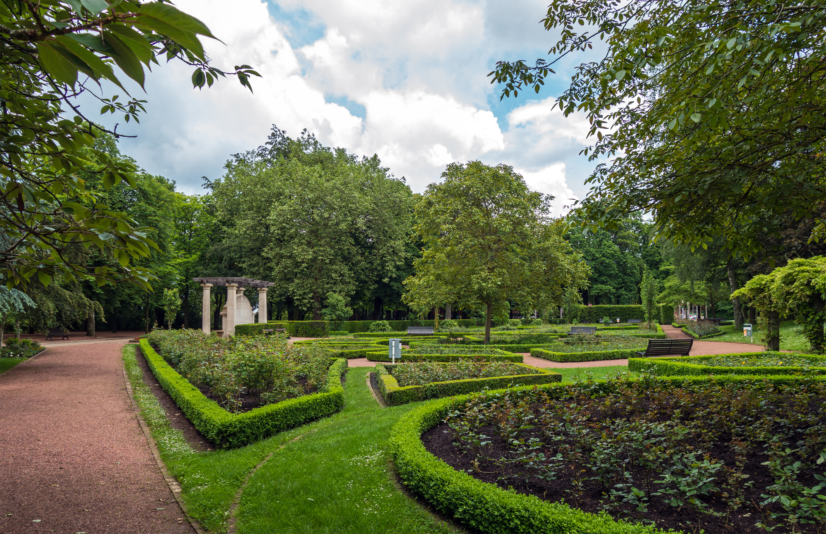 In the city park of Esch-Alzette on the Gaalgebierg